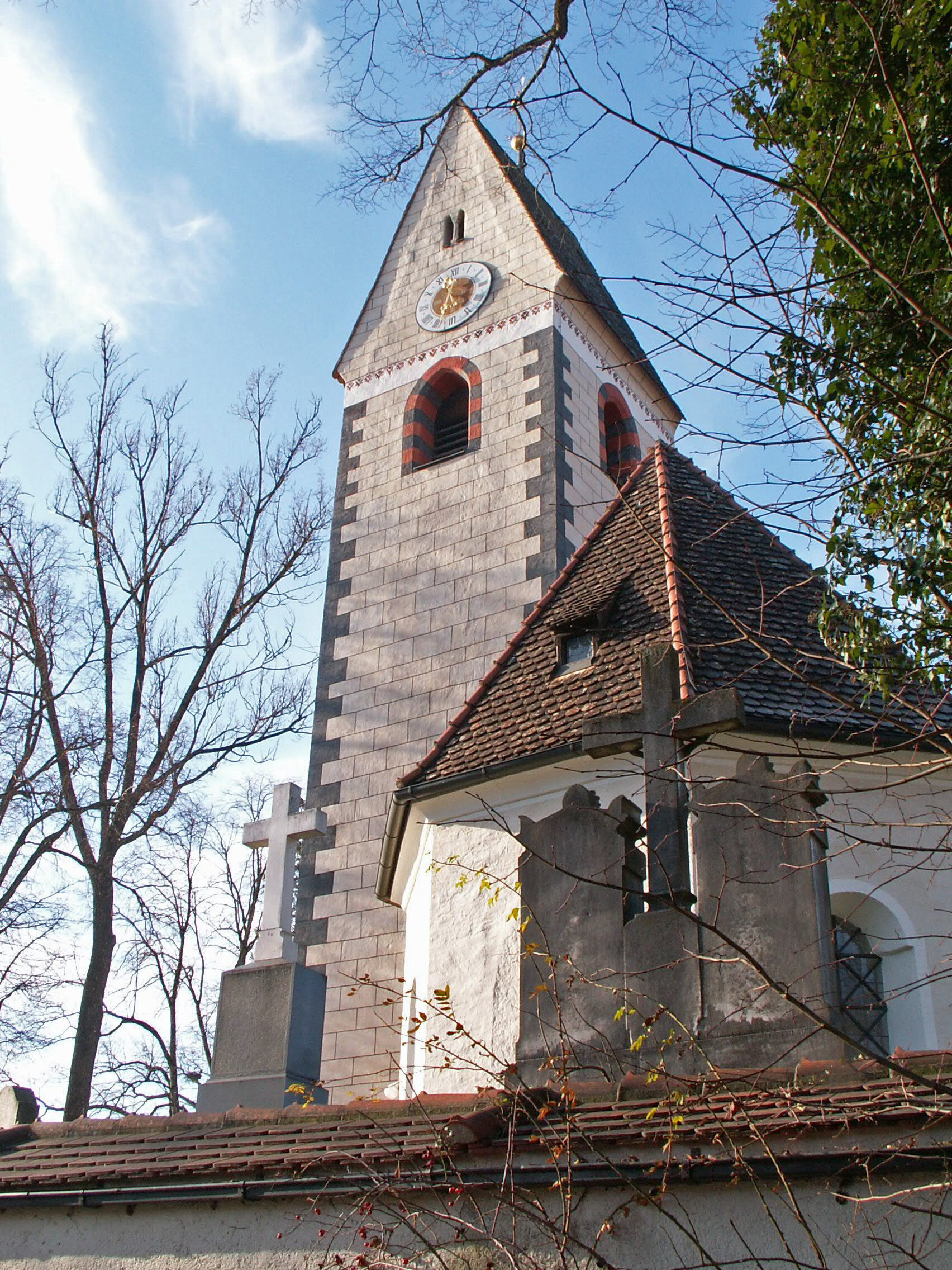 Kirche in Dürnhausen, Habach